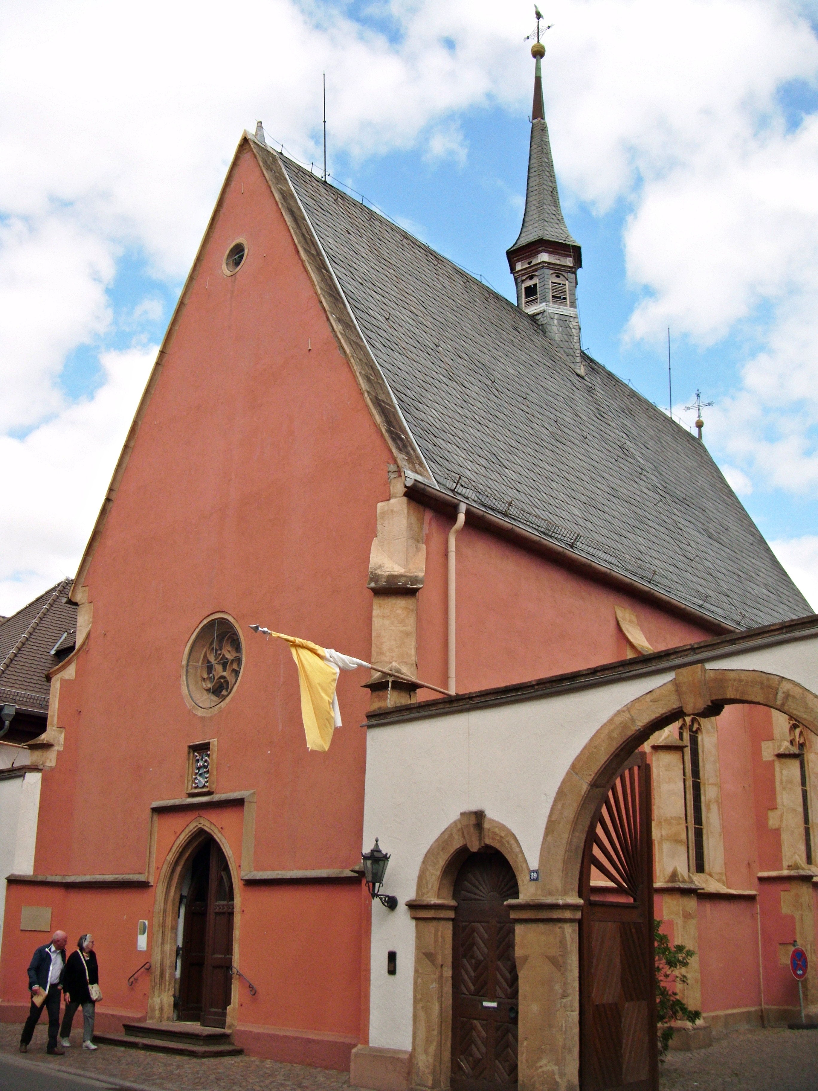 Deidesheim Spitalkapelle Fassade